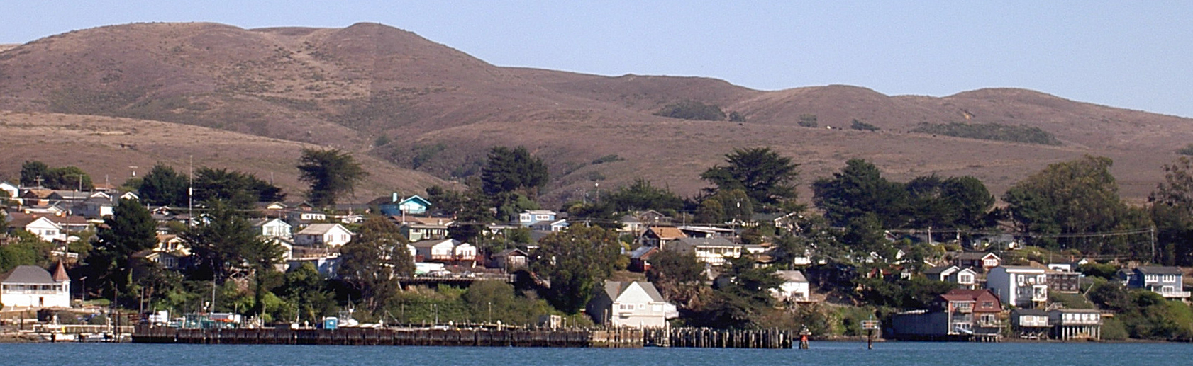 town of Bodega Bay as seen from Bay Flat Road north of Spud Point Marina, rotated and cropped using Adobe Photoshop Elements